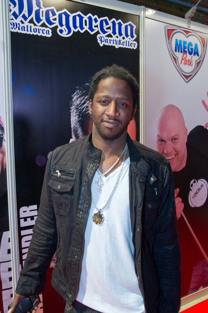 Singer of the German Danceproject R.I.O